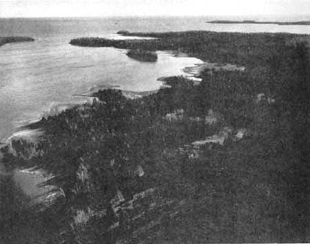 Fort Drummond Site, Drummond Island MI from the air